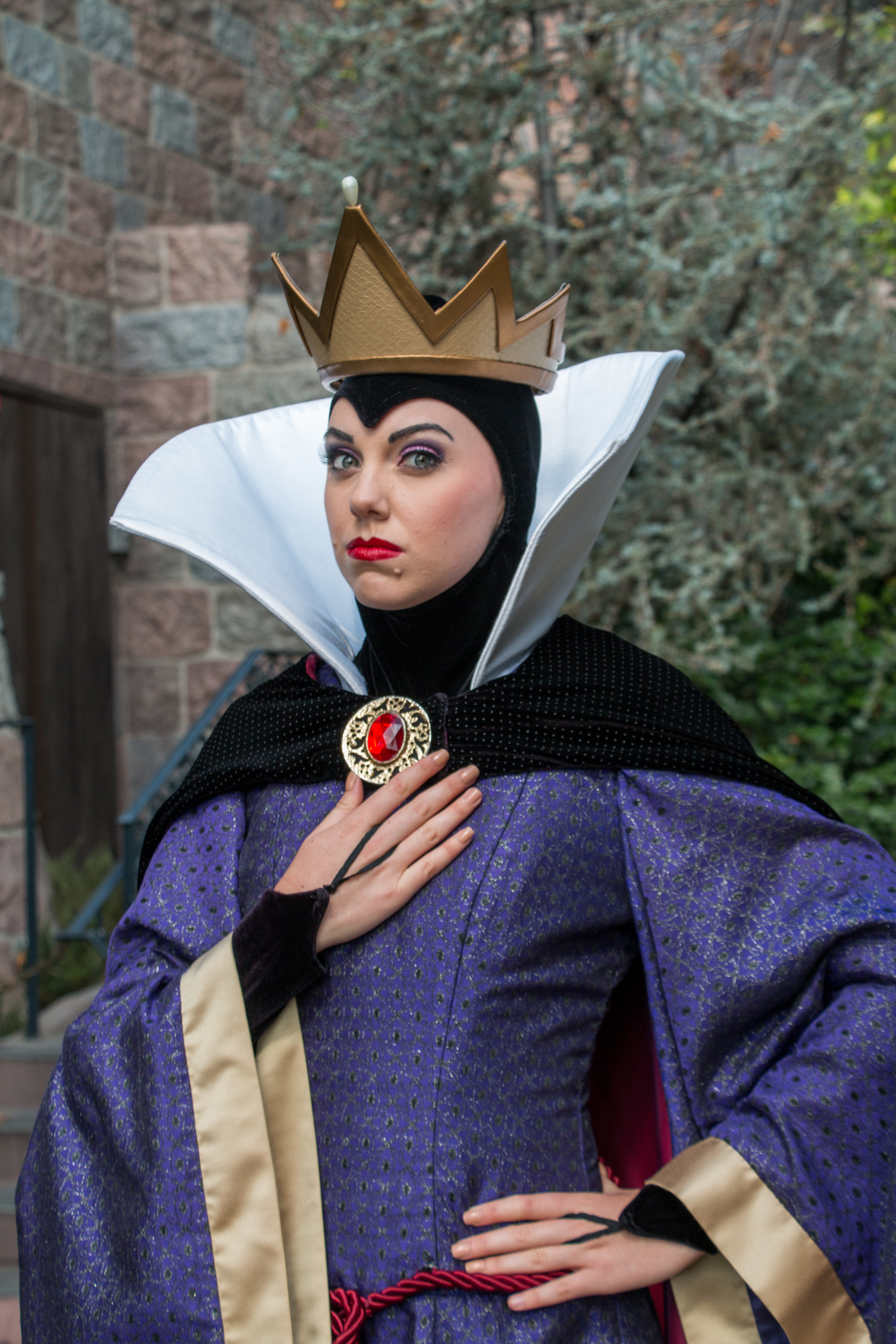 The Evil Queen striking a pose near Snow White's Wishing Well in Disneyland.